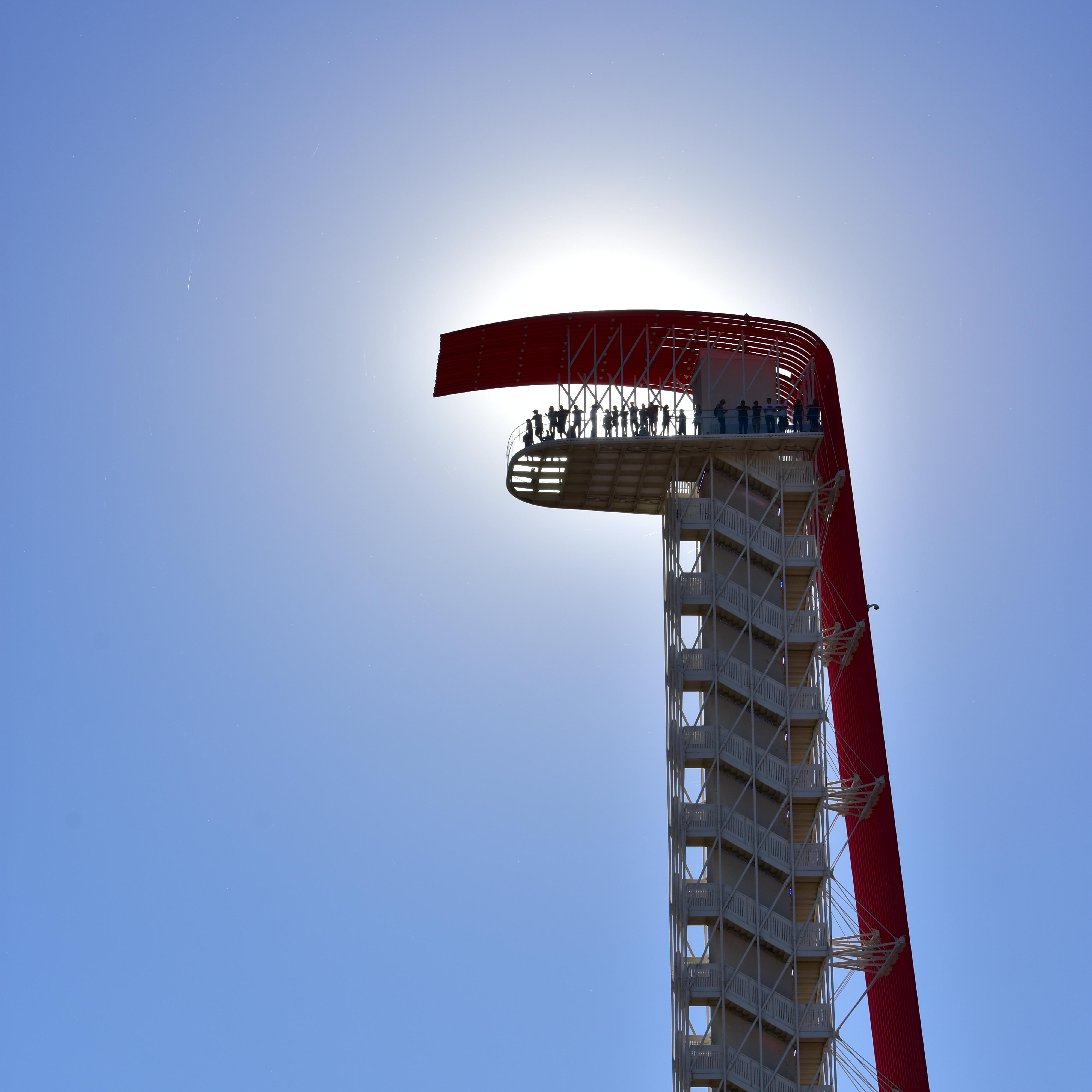 Circuit of the Americas